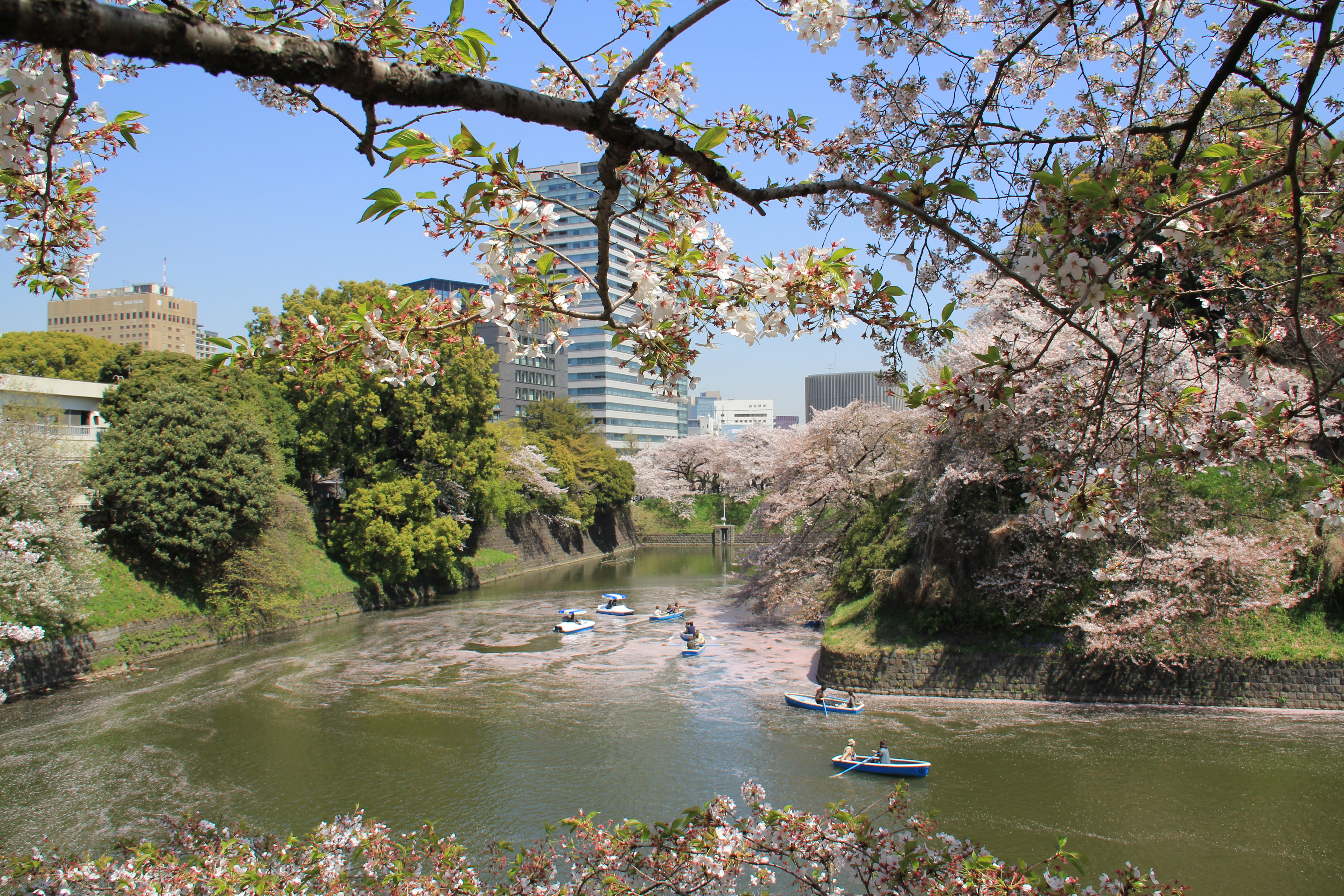 Chidorigafuchi Moat